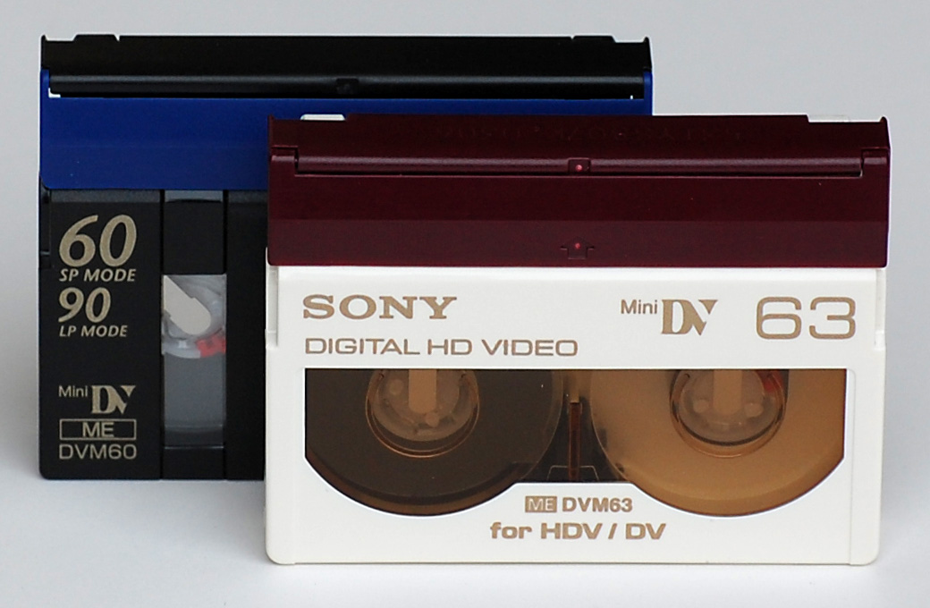 Small DV cassettes, one of which designed for HDV recordings